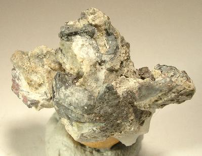 Lead Locality: Långban, Filipstad, Värmland, Sweden (Locality at ) Size: thumbnail, 2.4 x 1.6 x 1.4 cm Lead Nice cluster of well-defined Lead crystals from perhaps the world�s foremost locality for the species. Although there is some dissolution, the crystals have a good luster and even some well-defined crystal faces, which is rare. A very good specimen for what it is.